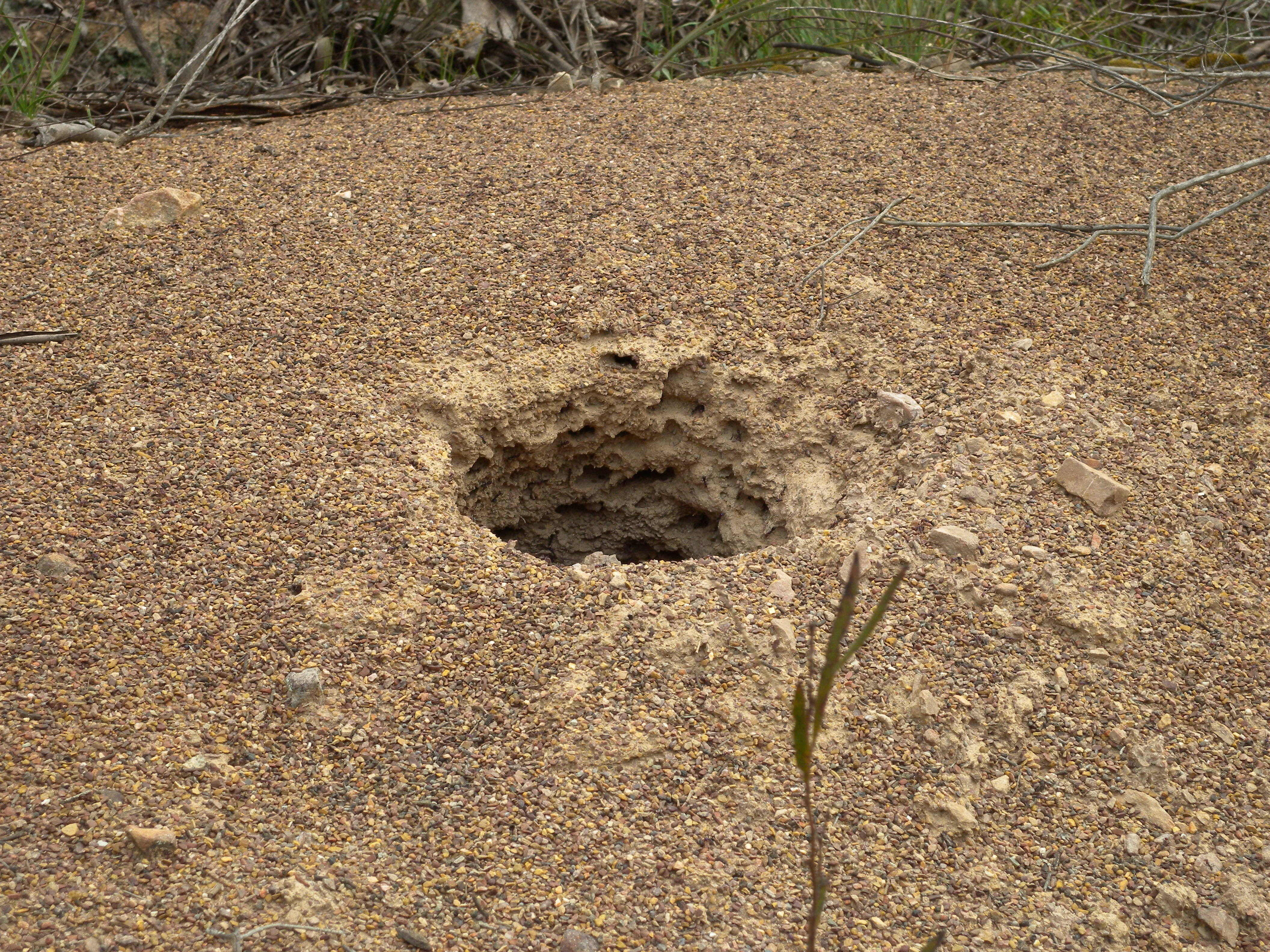 Iridomyrmex (meat ant) nest with presumed Echidna (Tachyglossus aculeatus) damage, Black Mountain, Canberra, ACT, 21 October 2009